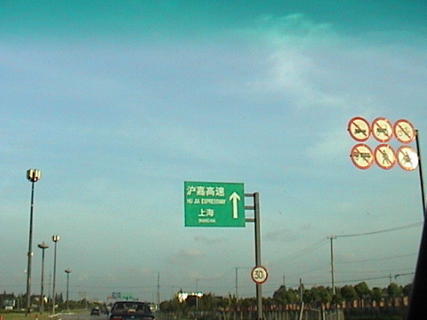 Hujia Expressway in Shanghai.